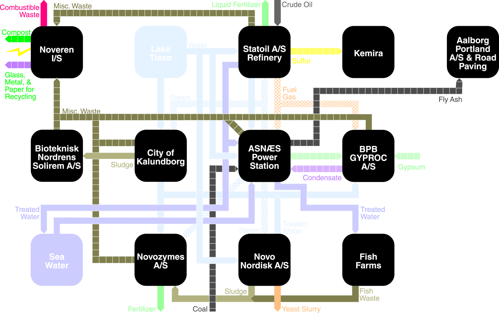 Kalundborg industrial symbiosis diagram. [1] The Kalundborg Industrial Estate coordinates inputs and outputs from many area organizations in order to use energy, materials, and waste efficiently. Shedroff, Nathan. 2009. Design is the Problem: The Future of Design Must be Sustainable. New York: Rosenfeld Media.